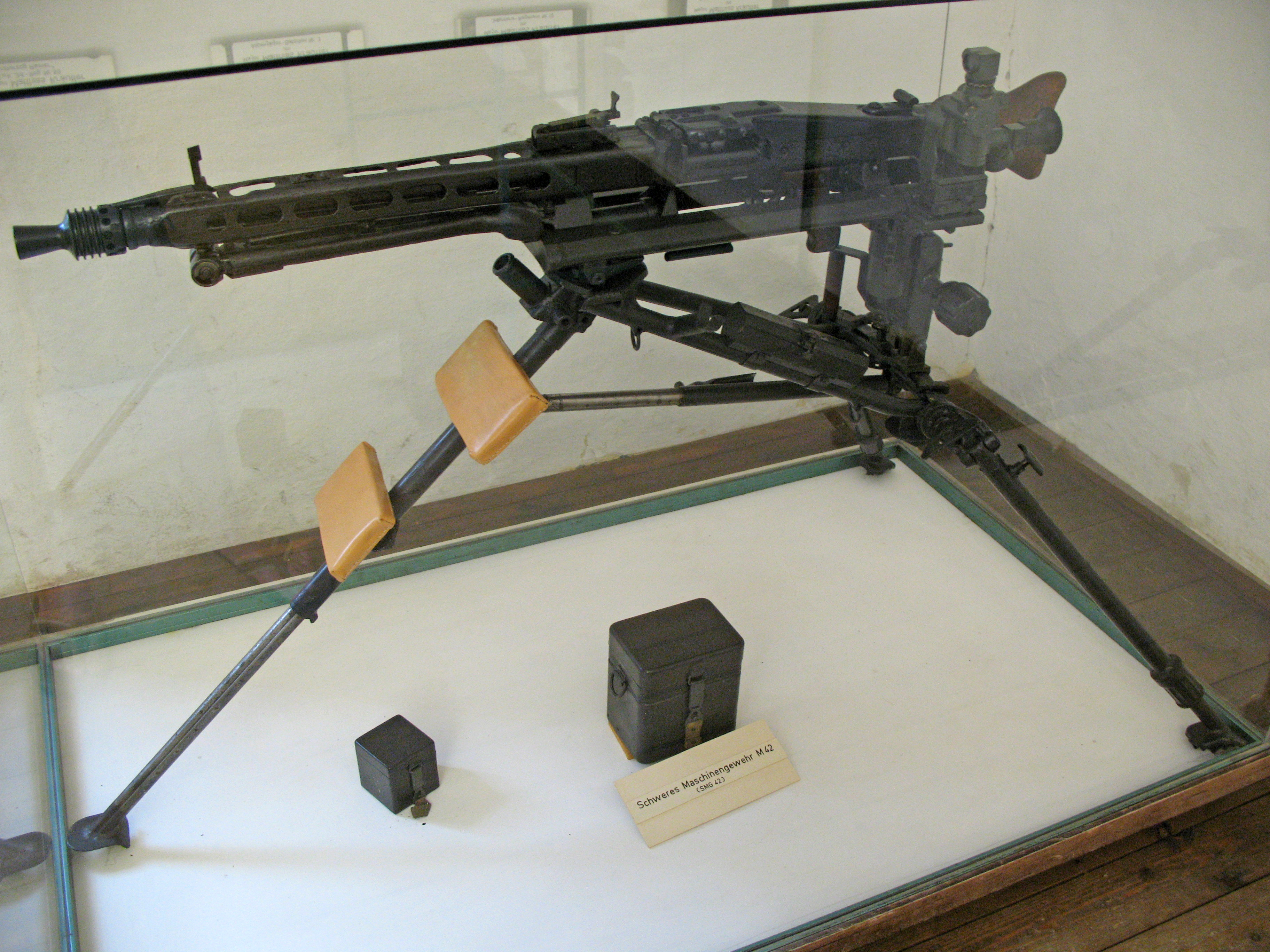 Heavy Machinerifle; High Fortress, Salzburg, Austria